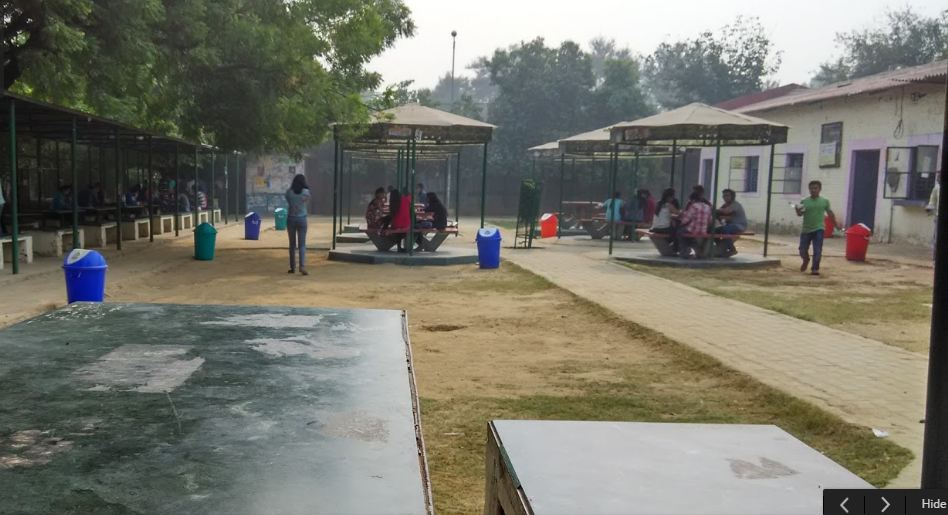 Courtyard of the college canteen.